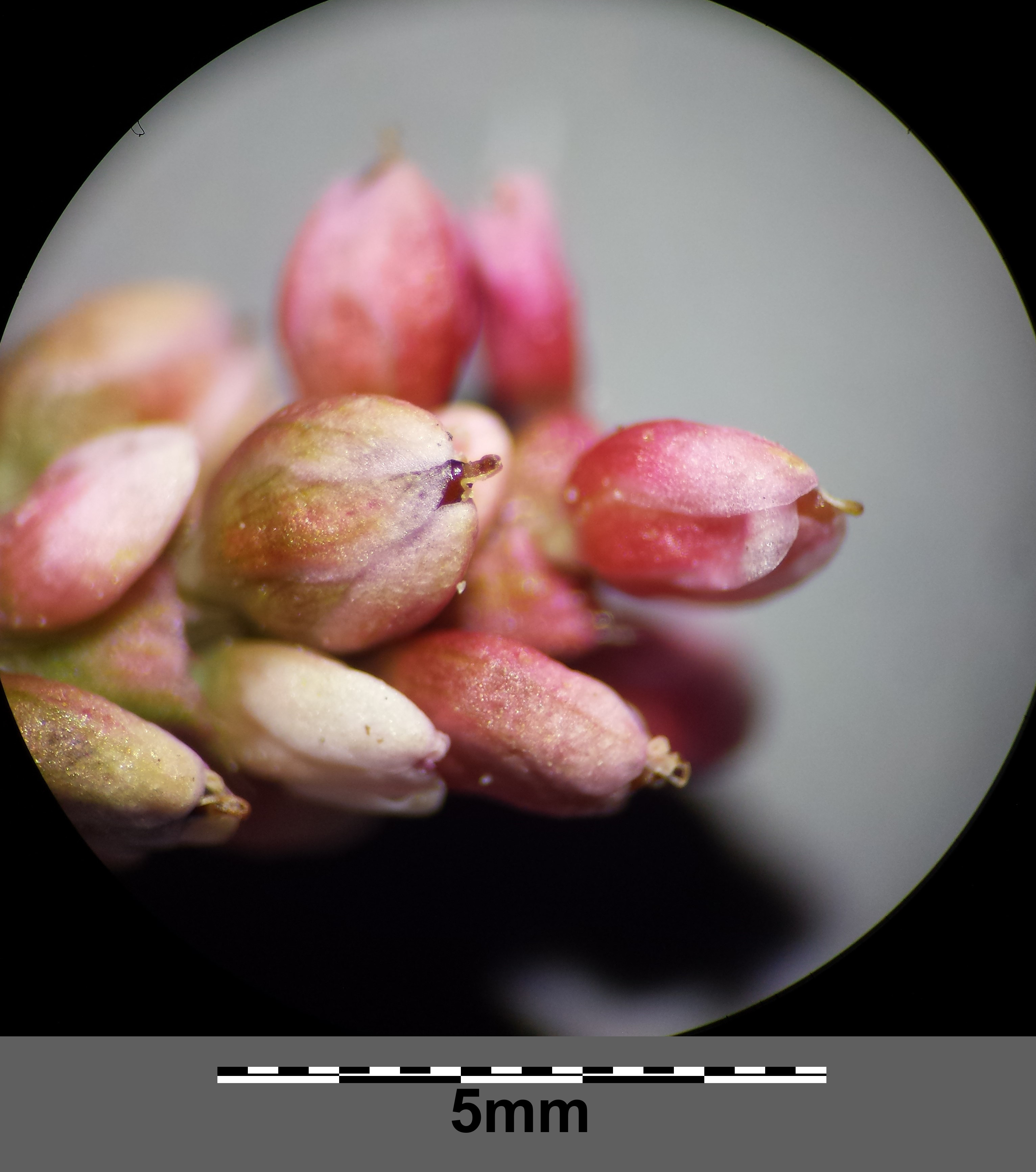 Flowers Taxonym: Persicaria maculosa ss Fischer et al. EfÖLS 2008 ISBN 978-3-85474-187-9 Location: Leopoldau, Vienna-Floridsdorf - ca. 160 m a.s.l. Habitat: gap in road surface